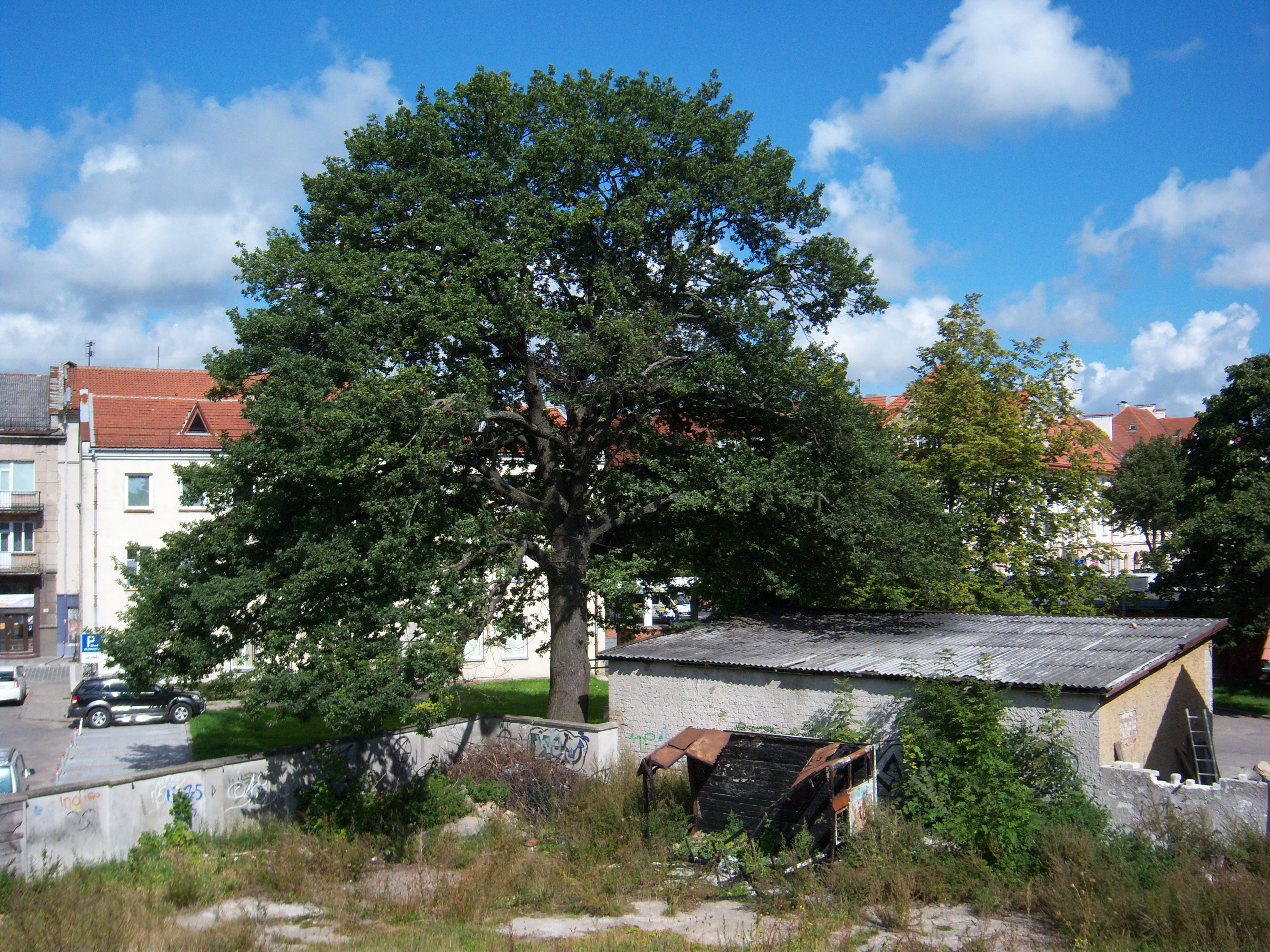 Oak tree, J. Janonio Street 3, Klaipėda, Lithuania